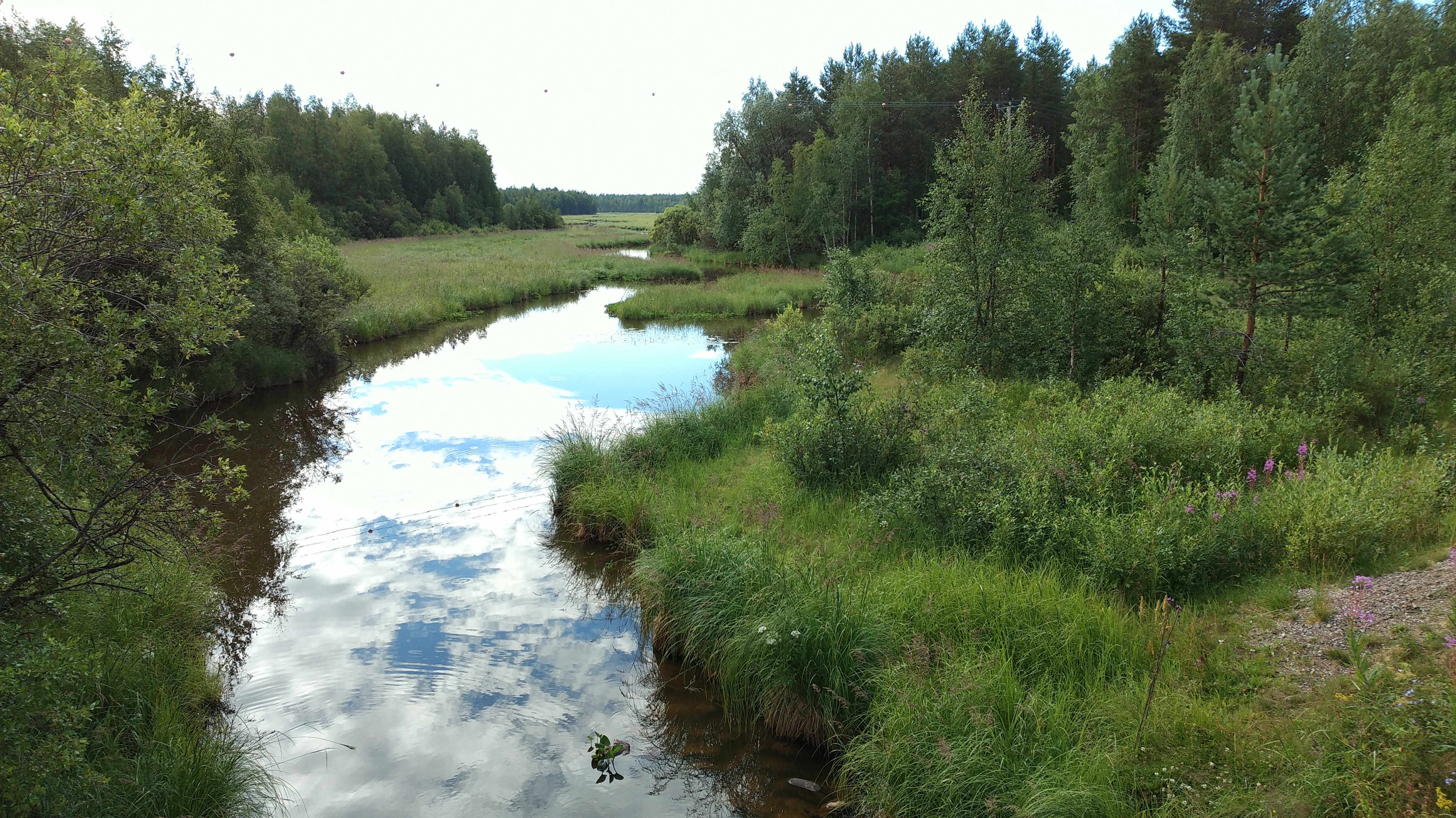 The river Nimisjoki in Vaala, Finland, seen downstream towards the South from the bridge of the road 800.